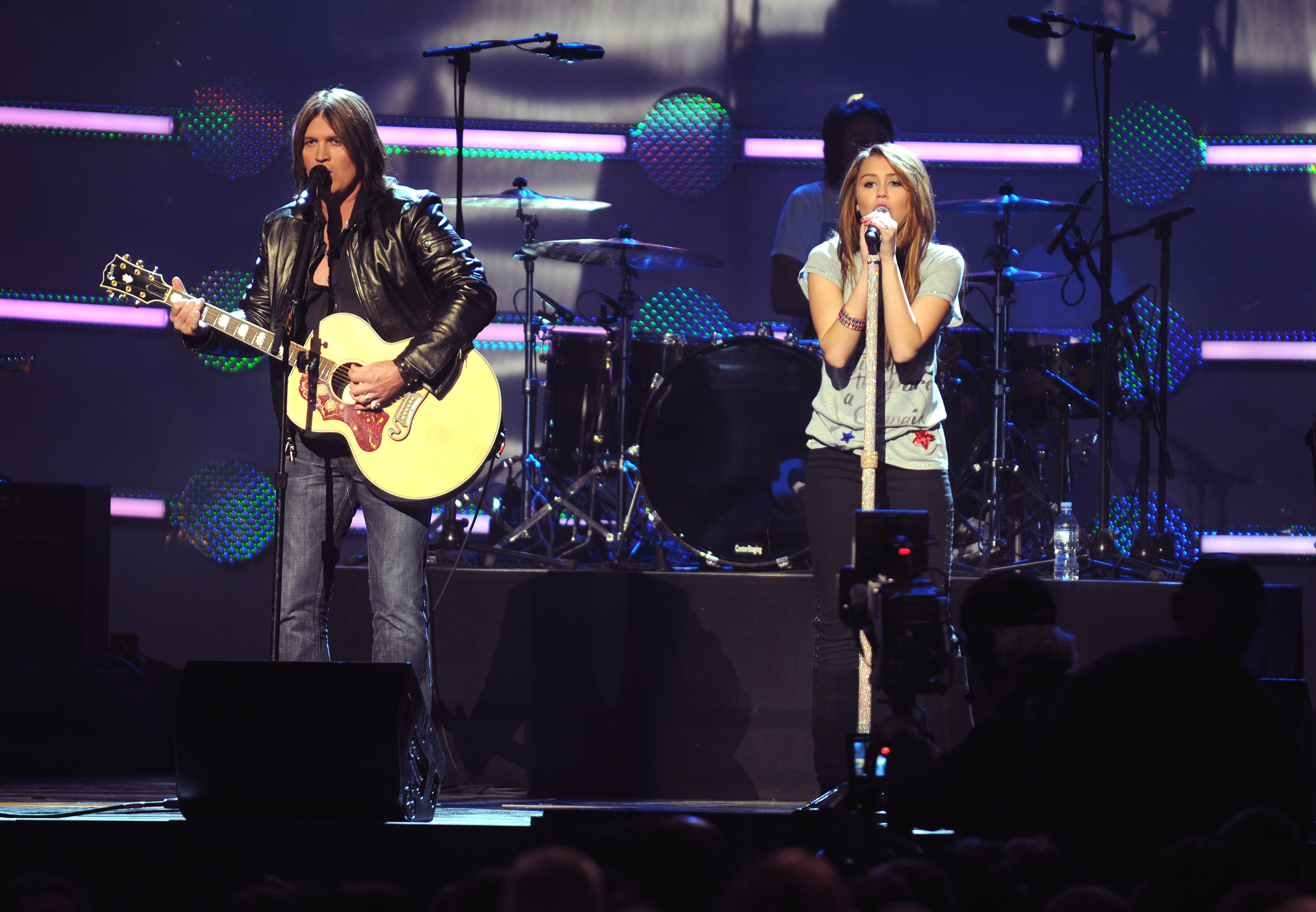 Billy Ray Cyrus and his daughter Miley Cyrus perform at the “Kids Inaugural: We Are the Future” concert at the Verizon Center in downtown Washington, D.C., Jan. 19, 2009.